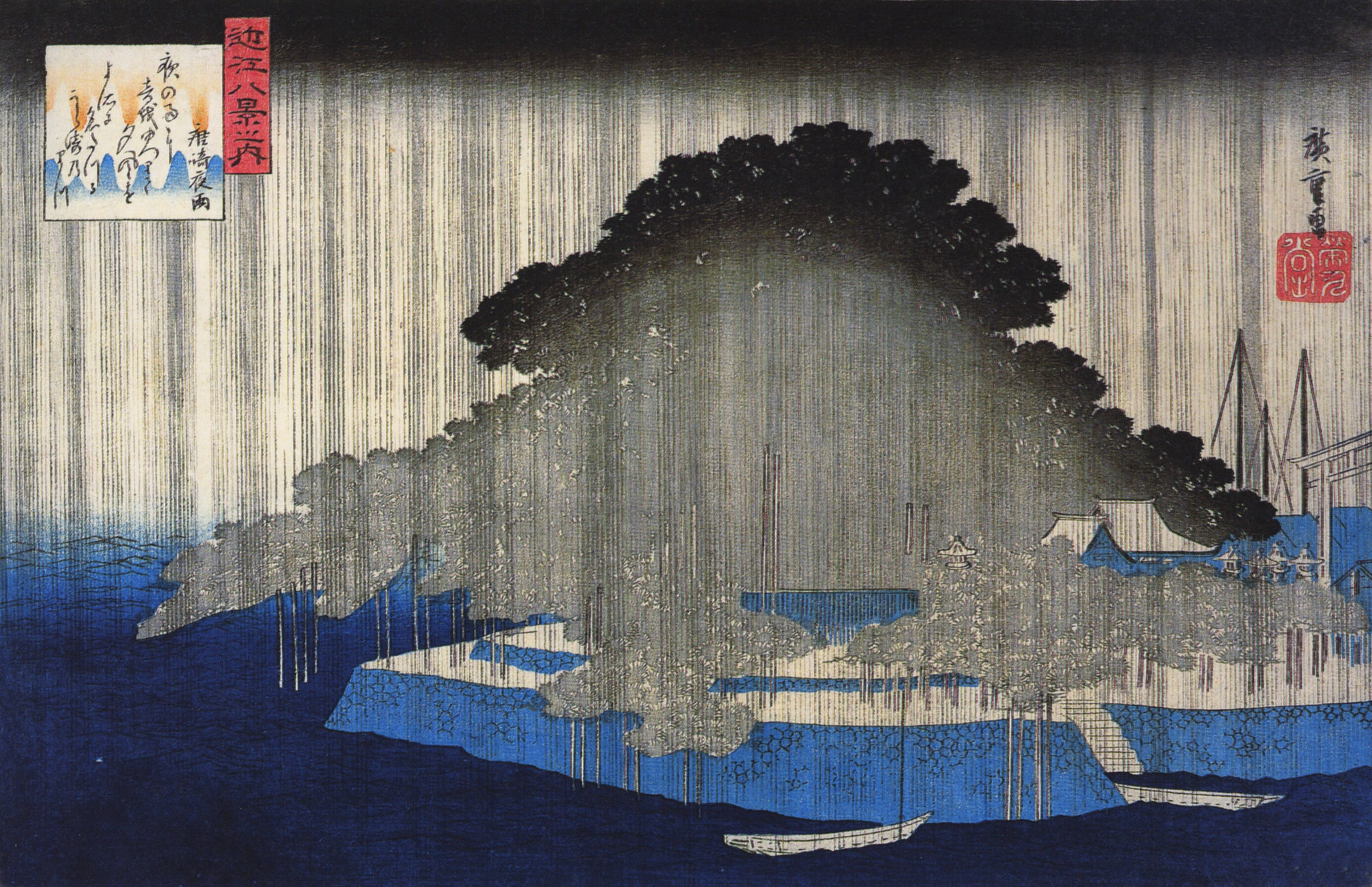 8 Views of Omi - #2. Night Rain In Karasak